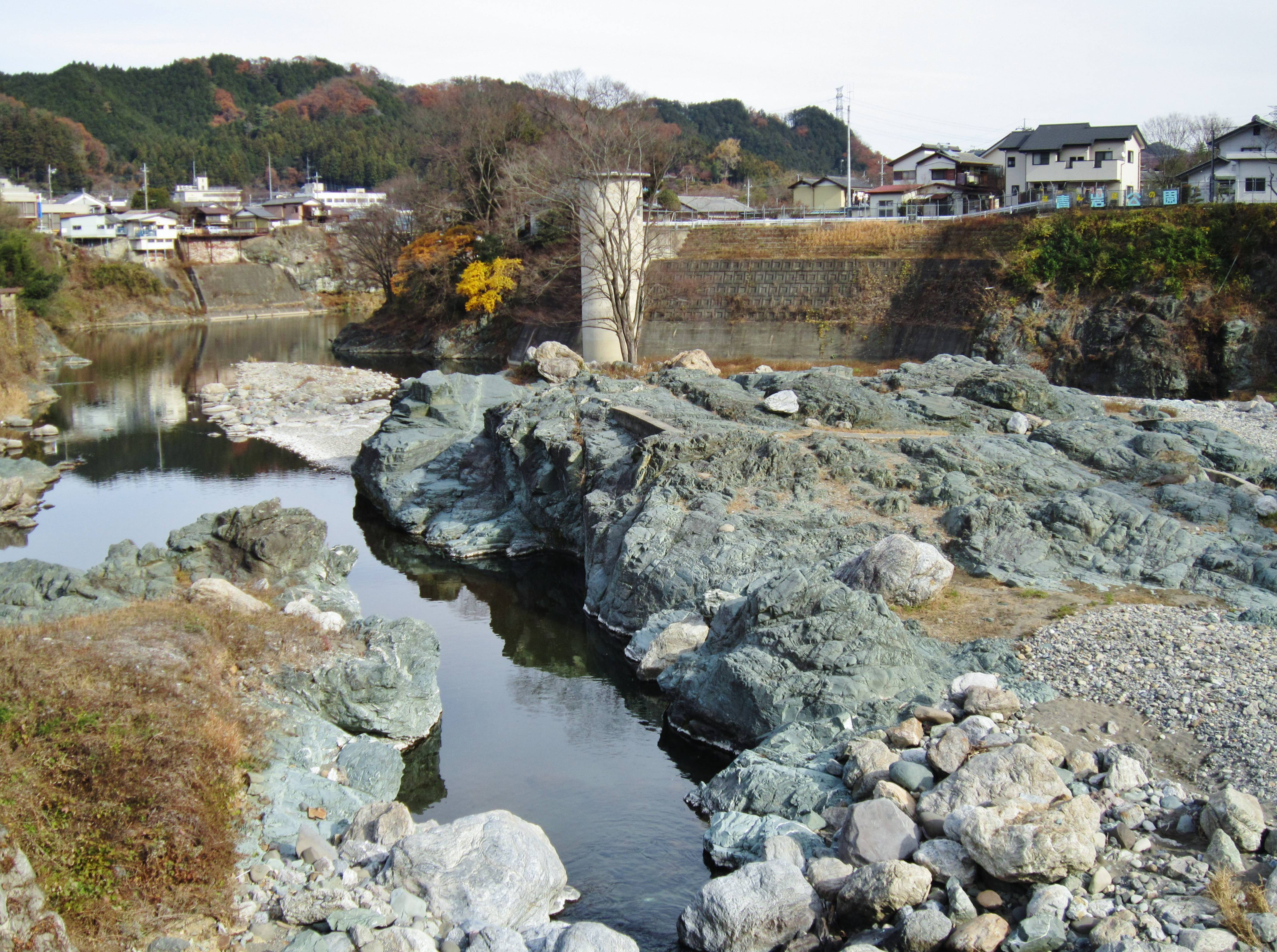 Aoiwa park.